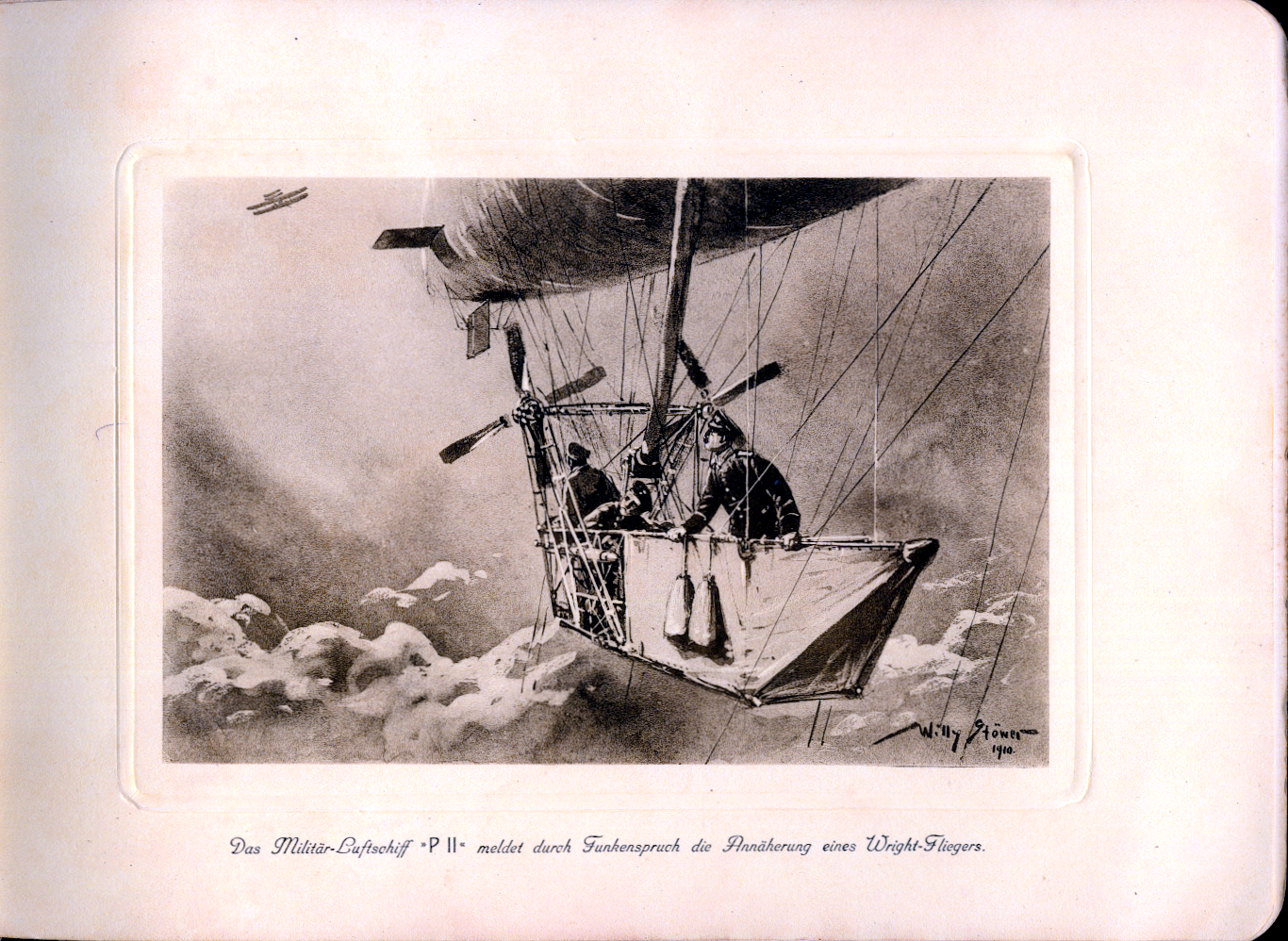 Willy Stöwer's painting of the gondola of the PL3/P II reporting arrival of a Wright Flyer. Caption translated: The miltary airship - P II - reports by radio the approach of a Wright Flyer